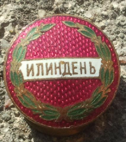 Badge of Ilinden organization, owned by Angele Bungorov